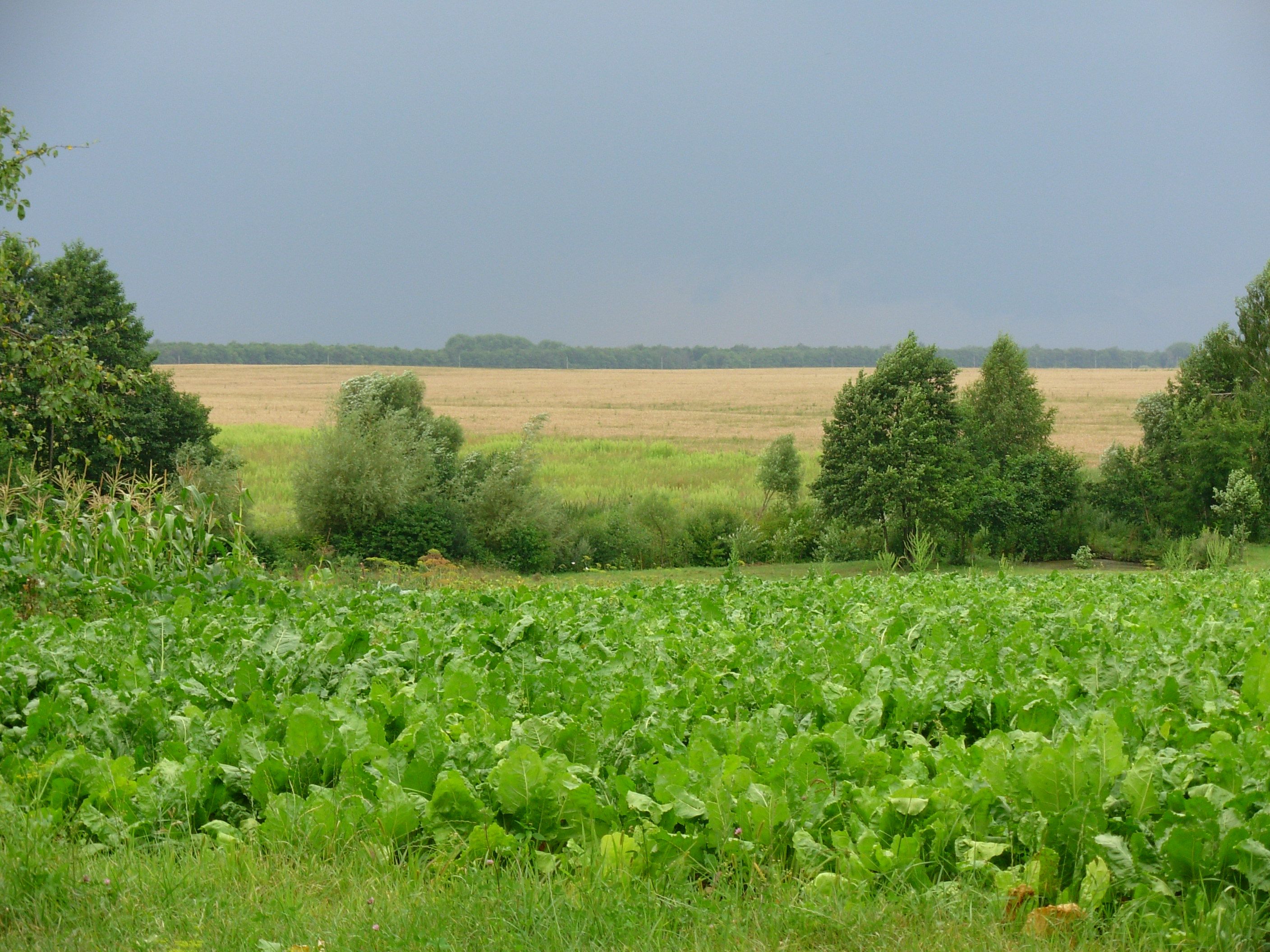 Fields west of Buriaky, Berdychiv Raion, Zhytomyr Oblast, Ukraine